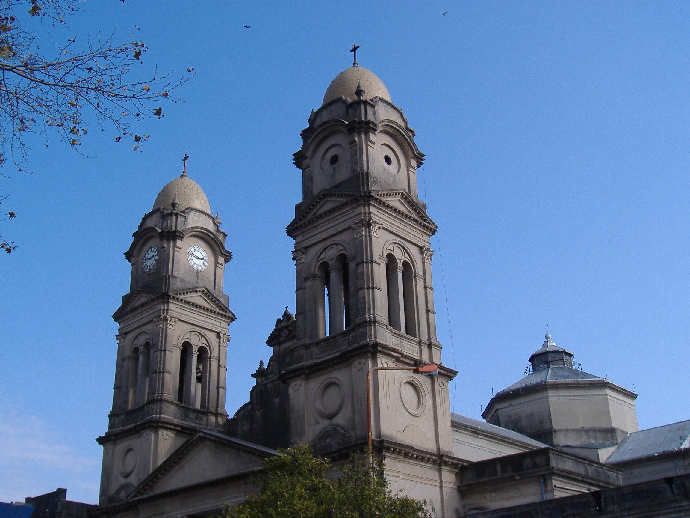 The towers of the cathedral of Gualeguaychú, Entre Ríos, Argentina.